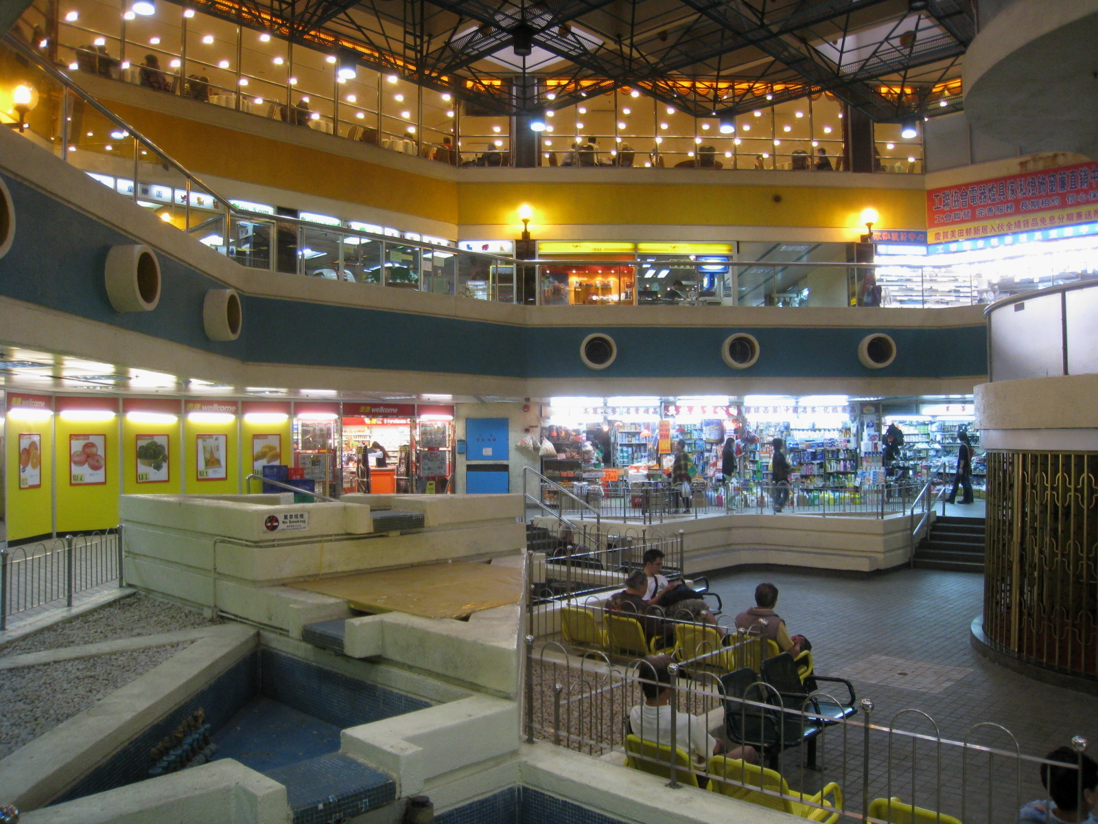 Mei Lam Shopping Centre Atrium